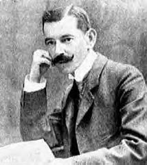 Crop of an image published in Diego's book Pomarrosas in 1904. “Figuras Historicas De Puerto Rico, Vol. 2” ; Eitor: Adolfo R. Lopez; Page 15; Publisher: Editorial Codillera, Inc.; ISBN 088495-188-X. Courtesy of the "Puerto Rican Institute of Culture" which is a government institution.